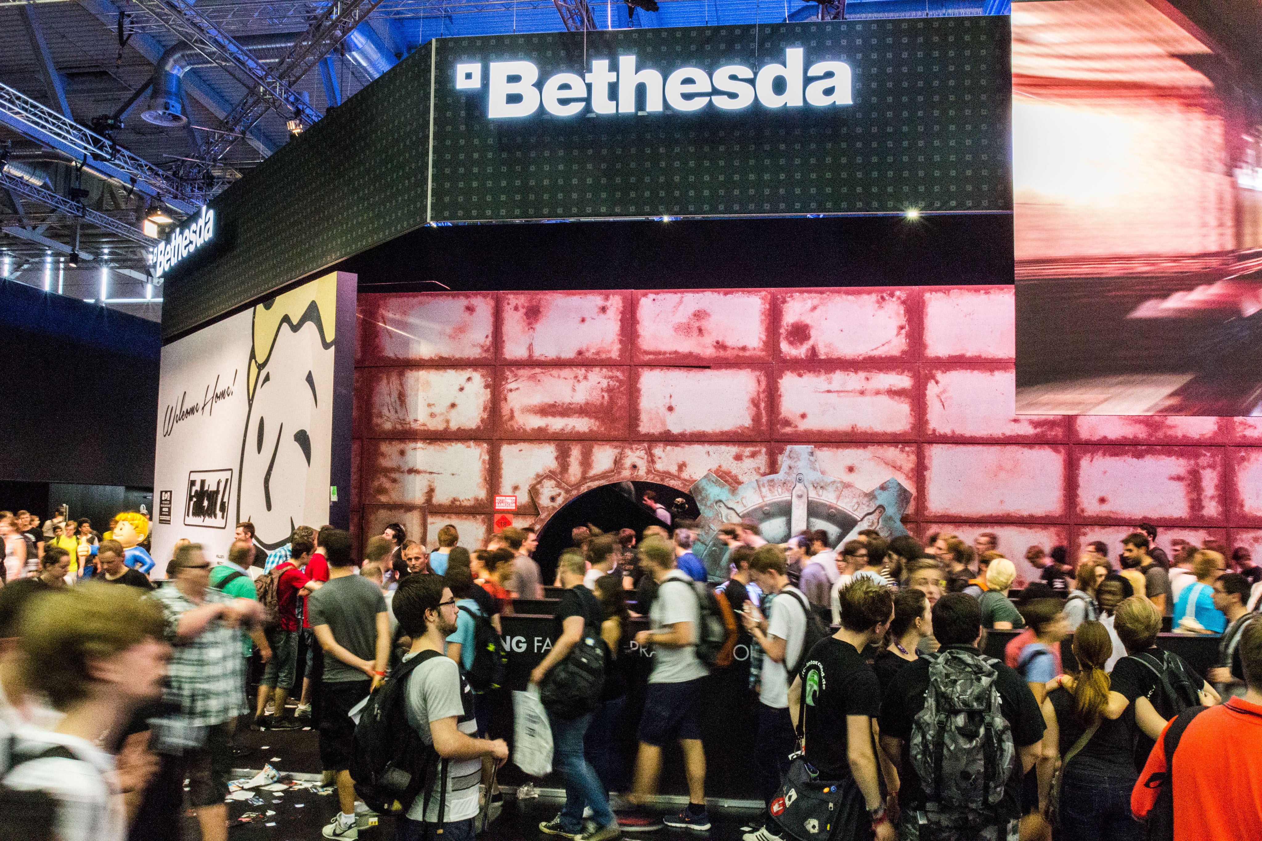 Fallout 4 booth and preview footage auditorium at Gamescom 2015.